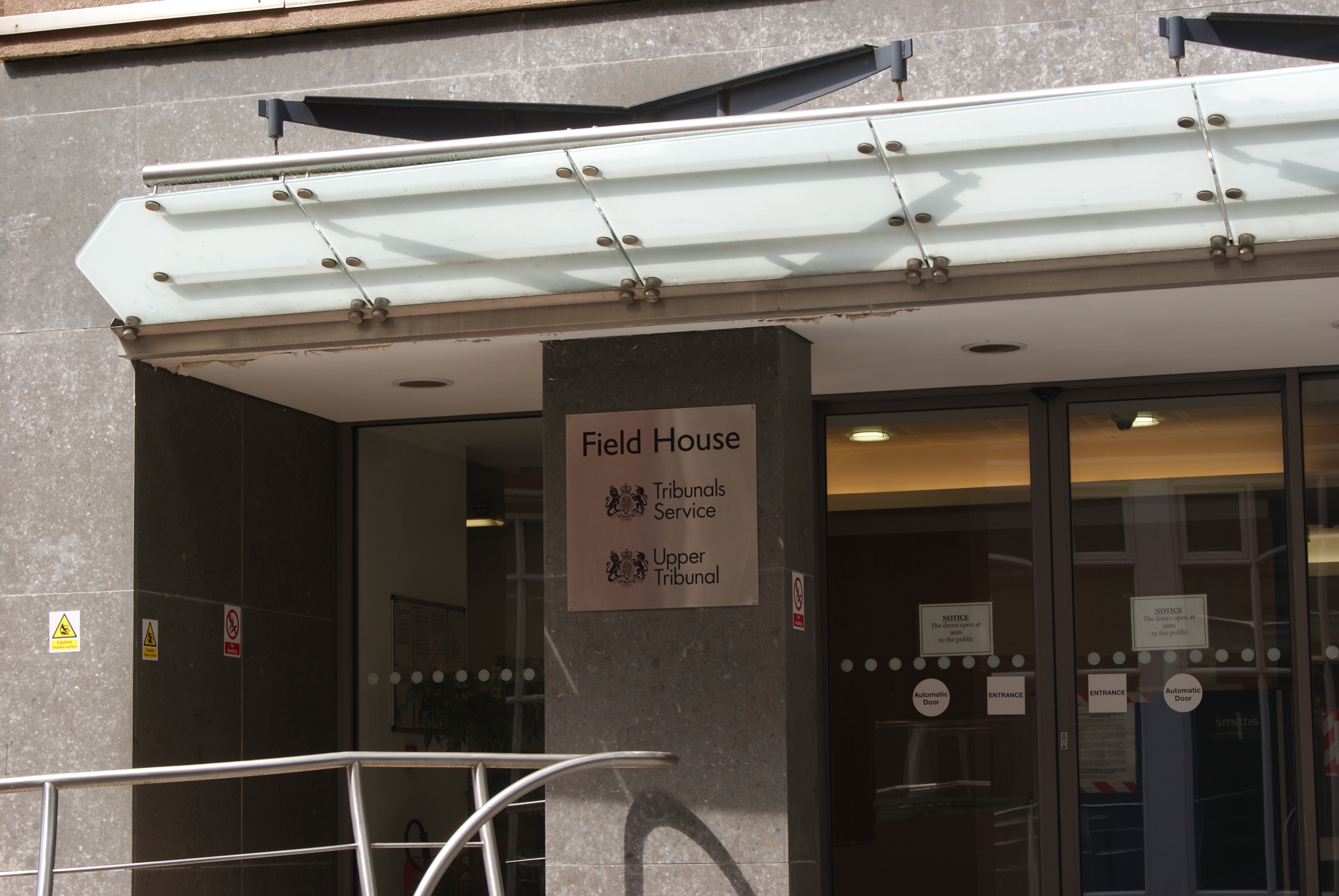 Field House at 15 Bream's Buildings, London EC4A 1DZ, UK, where Her Majesty's Courts and Tribunals Service and the Upper Tribunal are based.